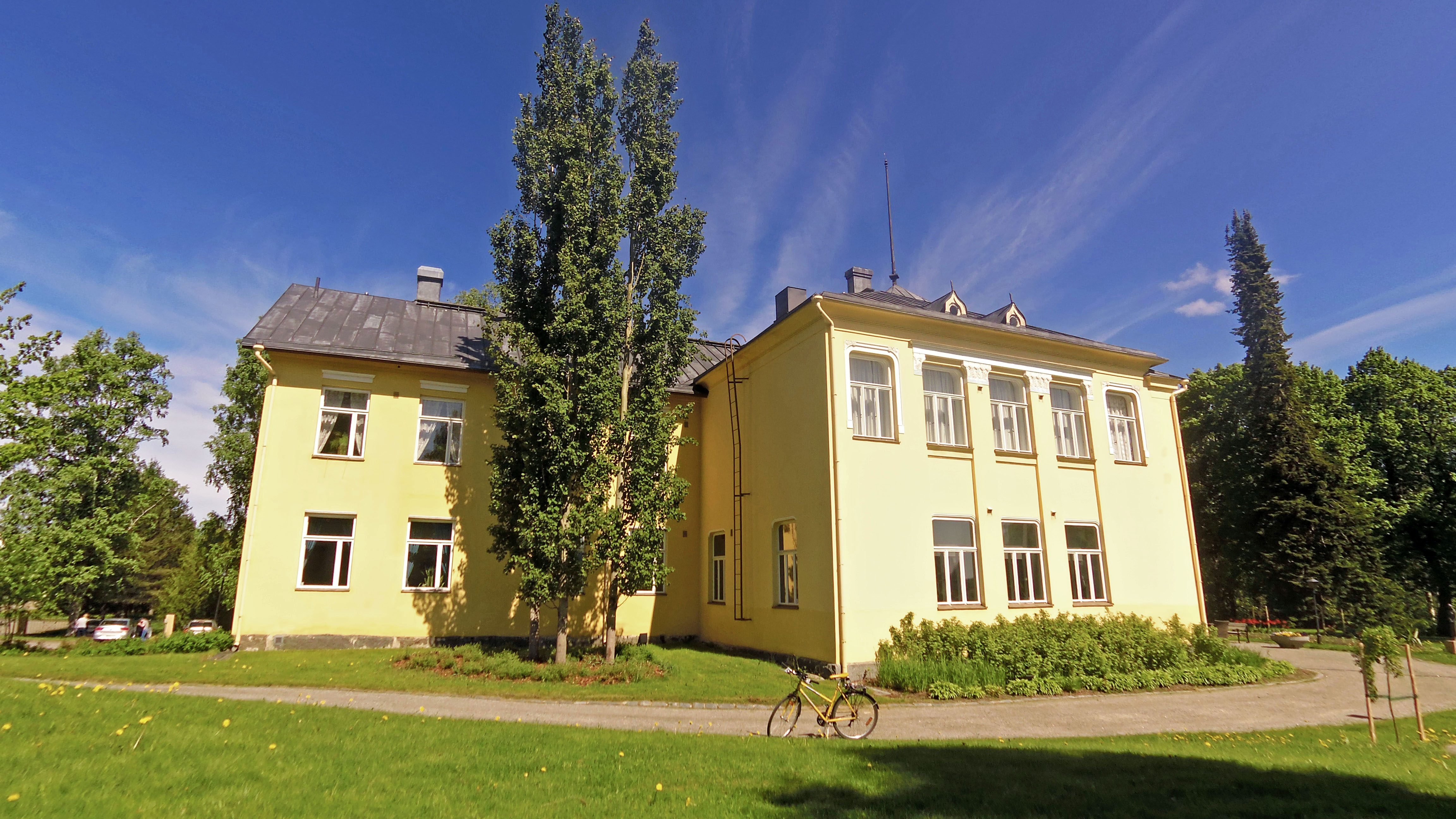 Kuokkala manor, Jyväskylä.